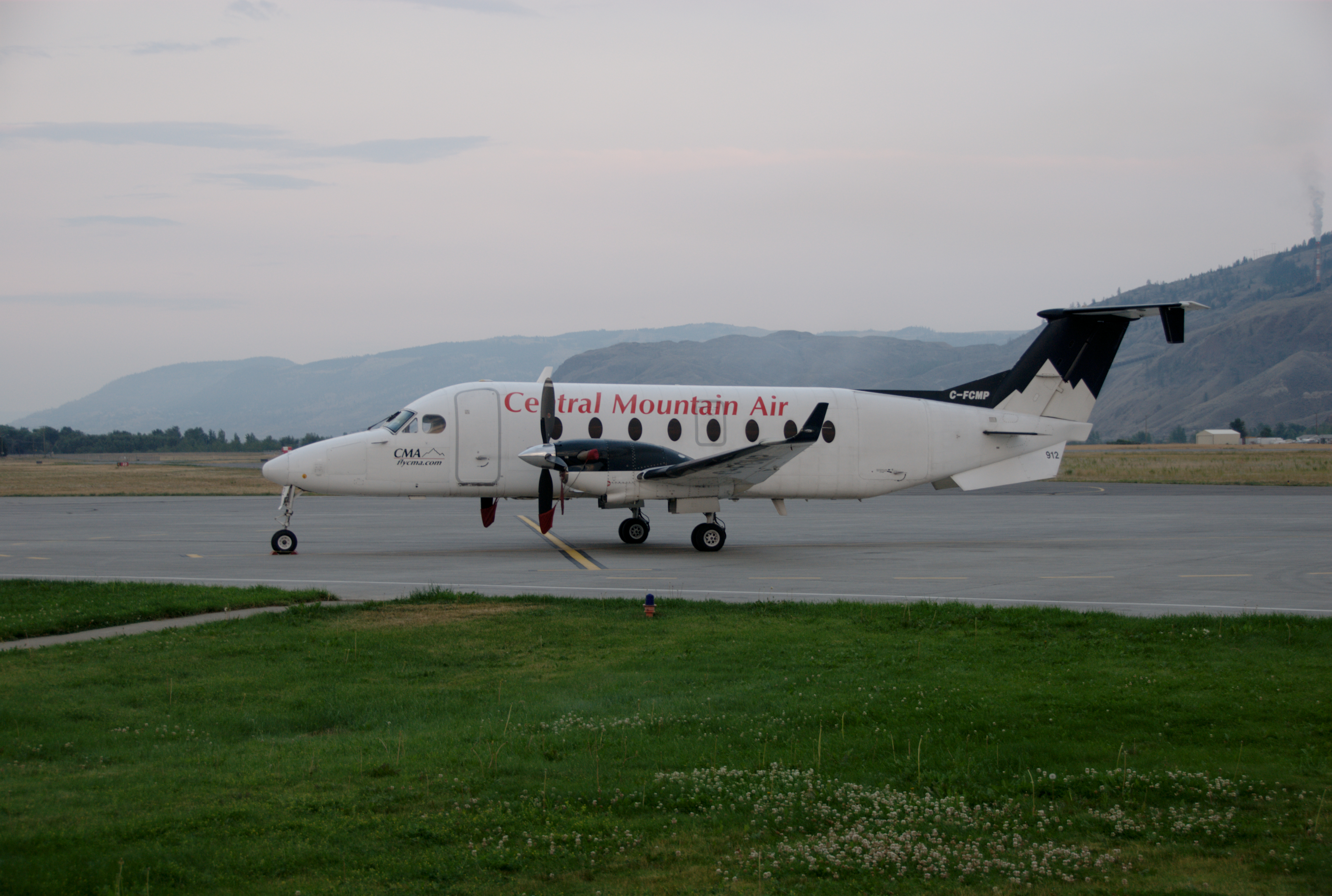 Central Mountain Air Beechcraft 1900D (C-FCMP) at Kamloops Airport